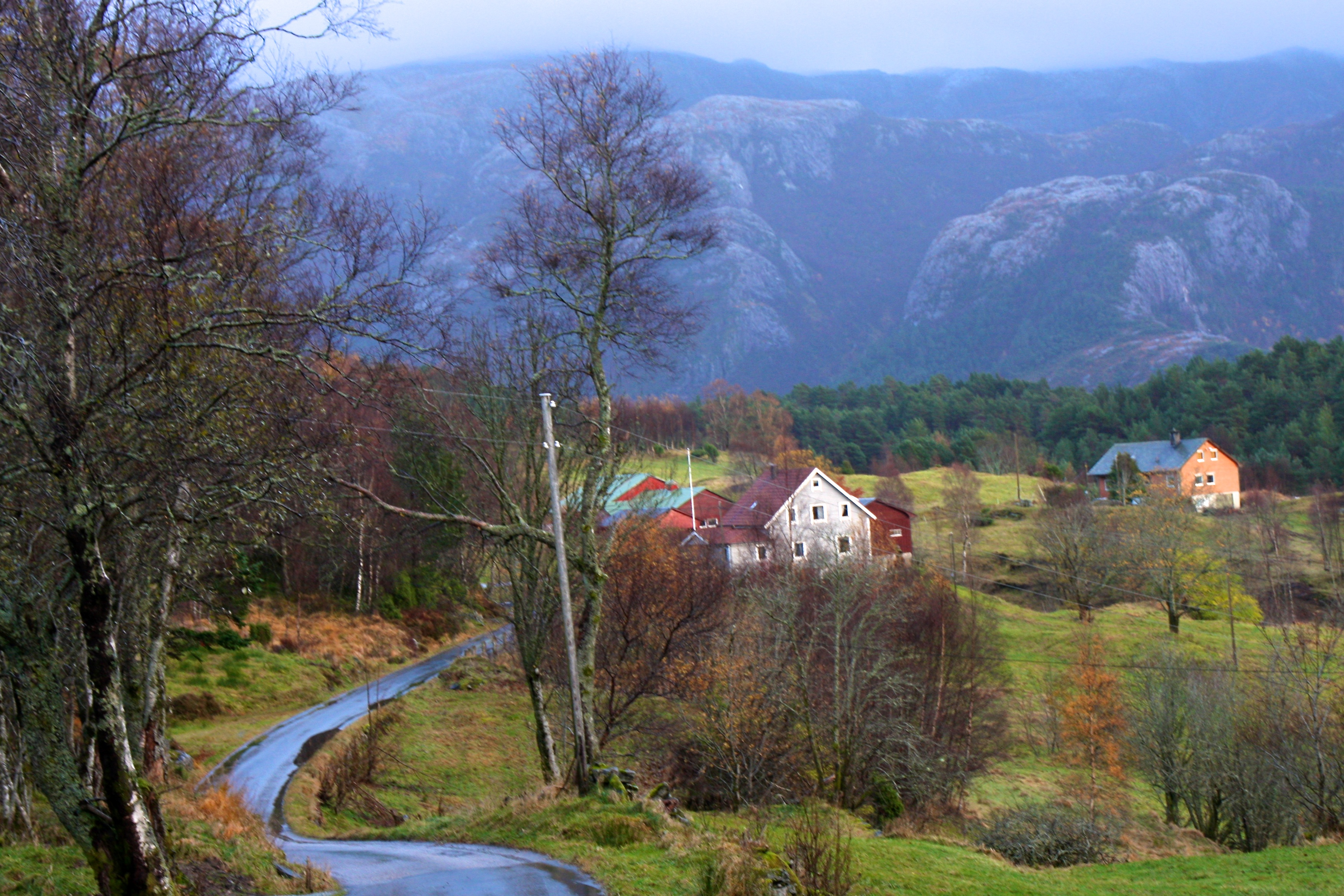 Vatne (Gulen) in Gulen municipality, Norway.